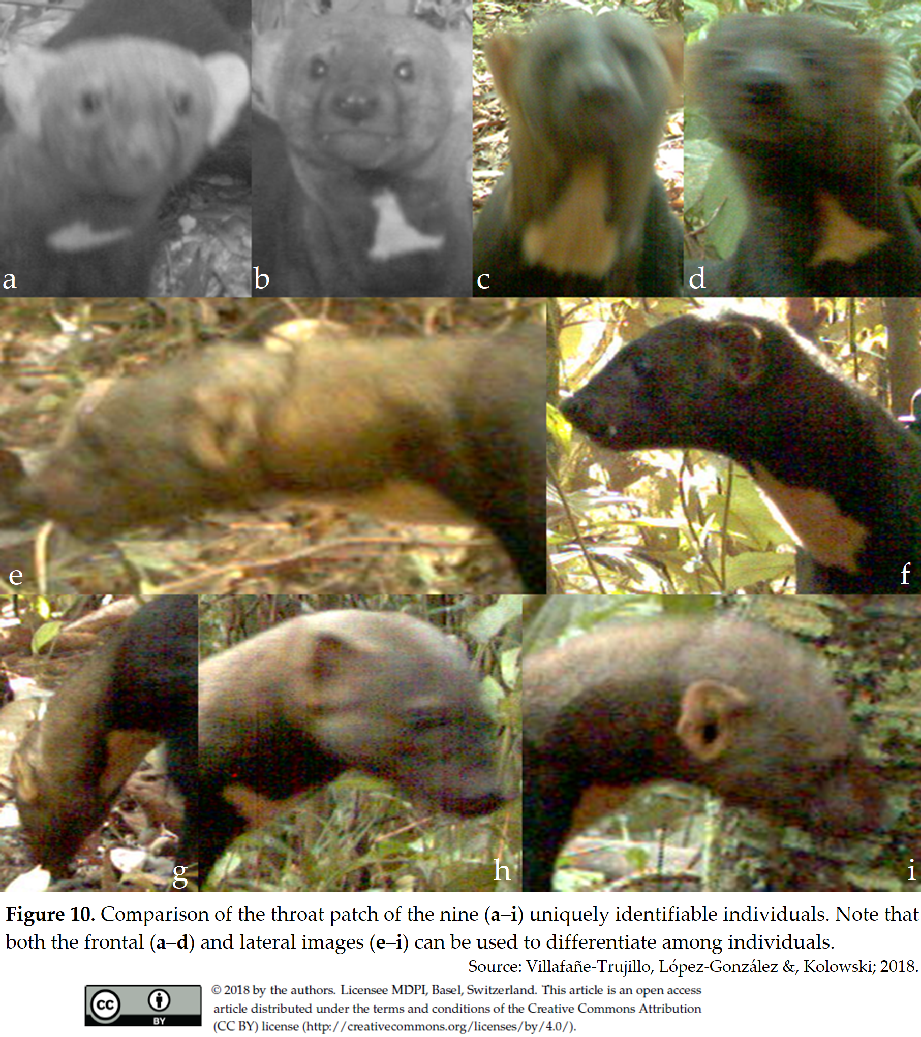 Different individuals of tayra in the Peruvian Amazon.